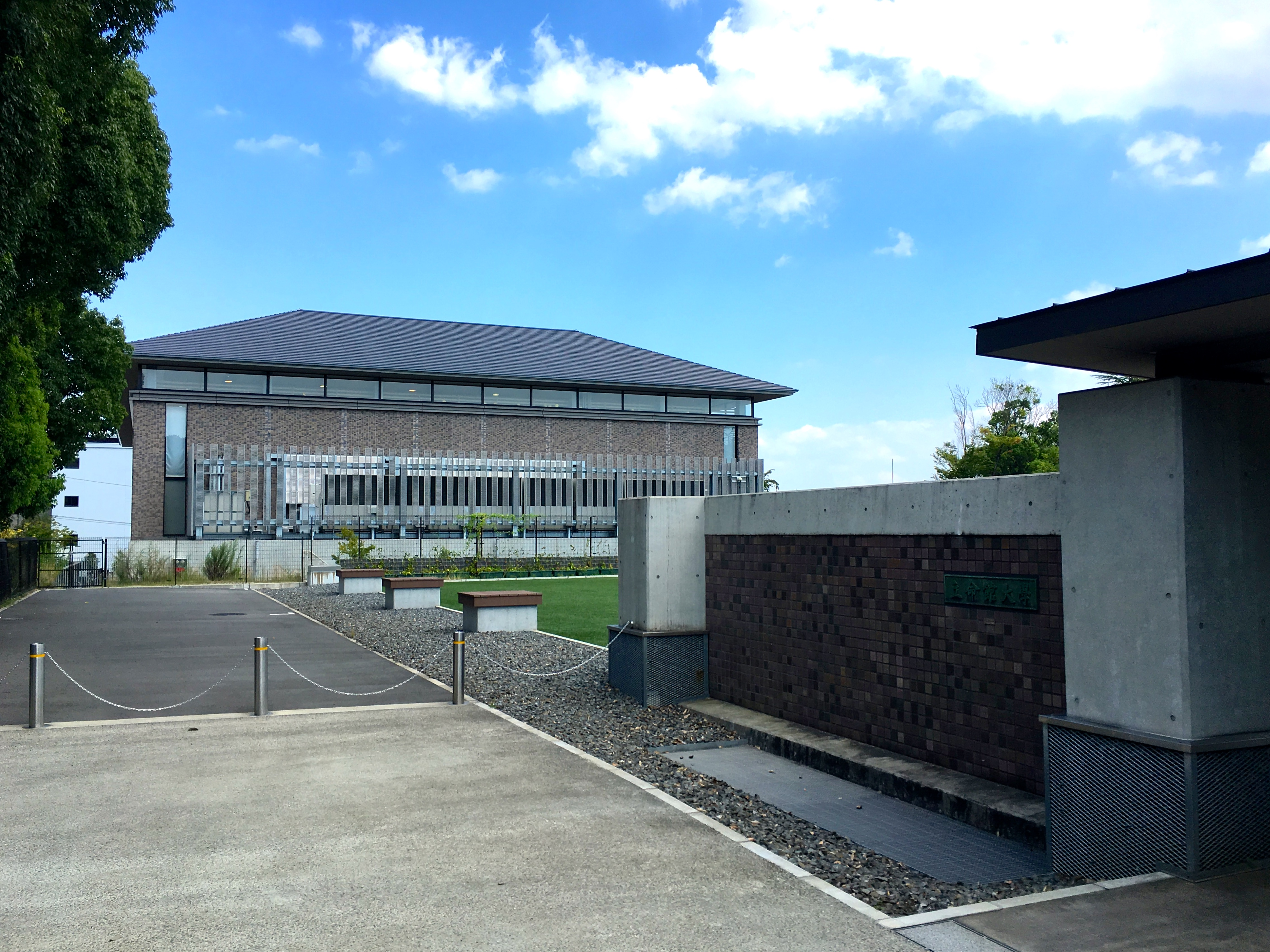 Kyoto Kinugasa Gymnasium at Kinugasa Campus of Ritsumeikan University in Kyoto, Japan